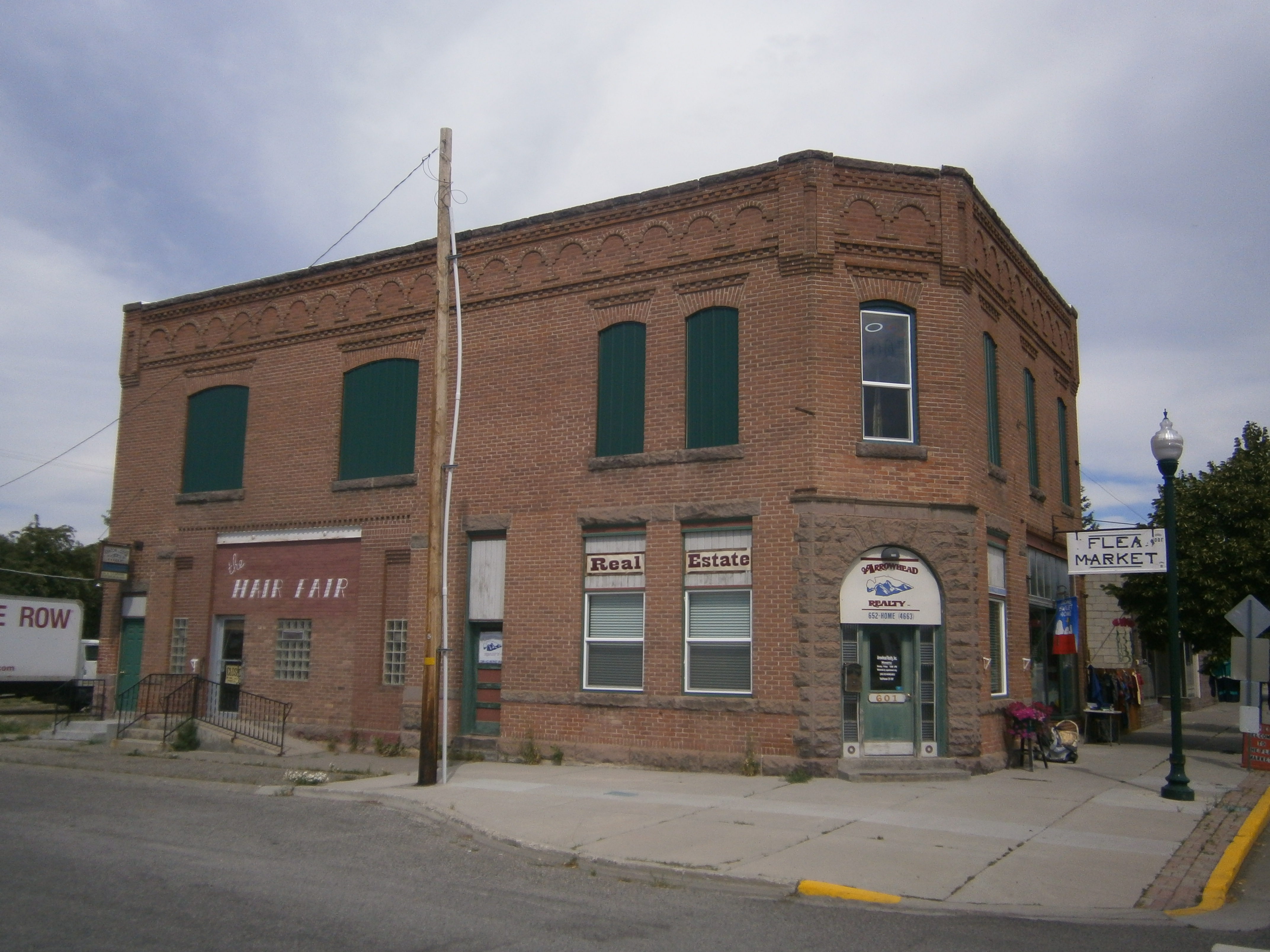 The Independent Order of Odd Fellows Hall, a historic building of the Independent Order of Odd Fellows in Ashton, Idaho, United States.